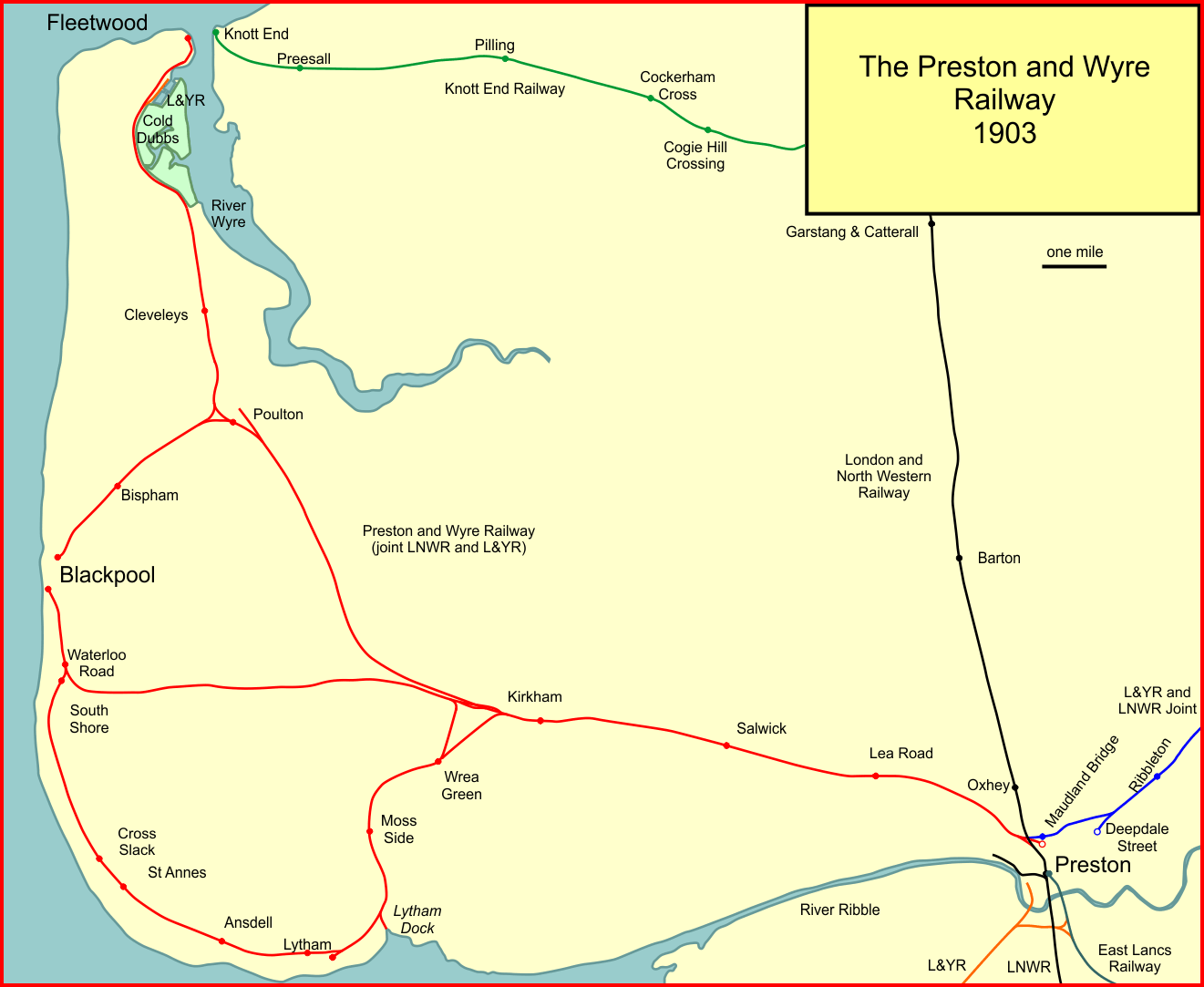 System map of the Preston and Wyre Railway, Lancashire, England, in 1903